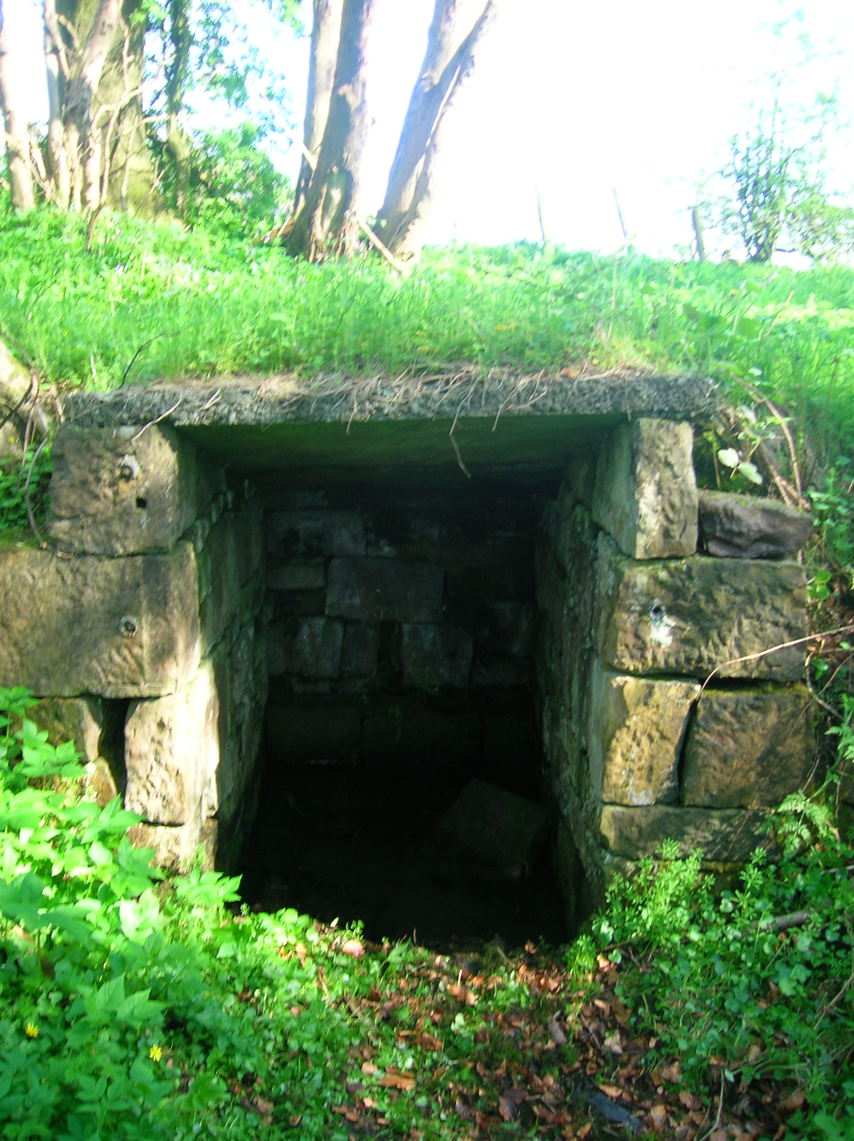 Lady's well in Kilmaurs, East Ayrshire, Scotland. 2007. Rosser 13:18, 30 April 2007 (UTC)